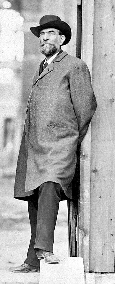 Adolf Cluss in front of the National Museum (Arts and Industries Building), 1880